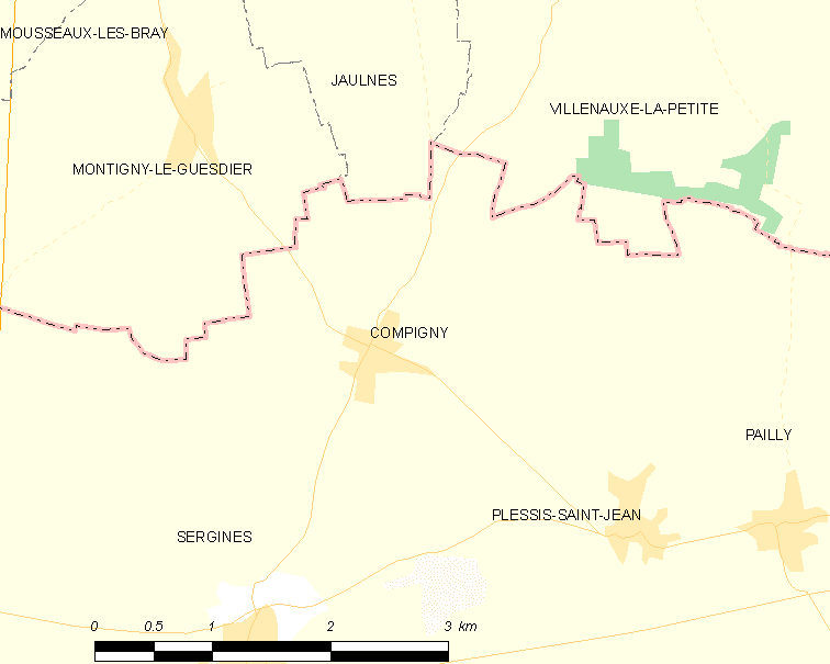 Map of French municipality Compigny